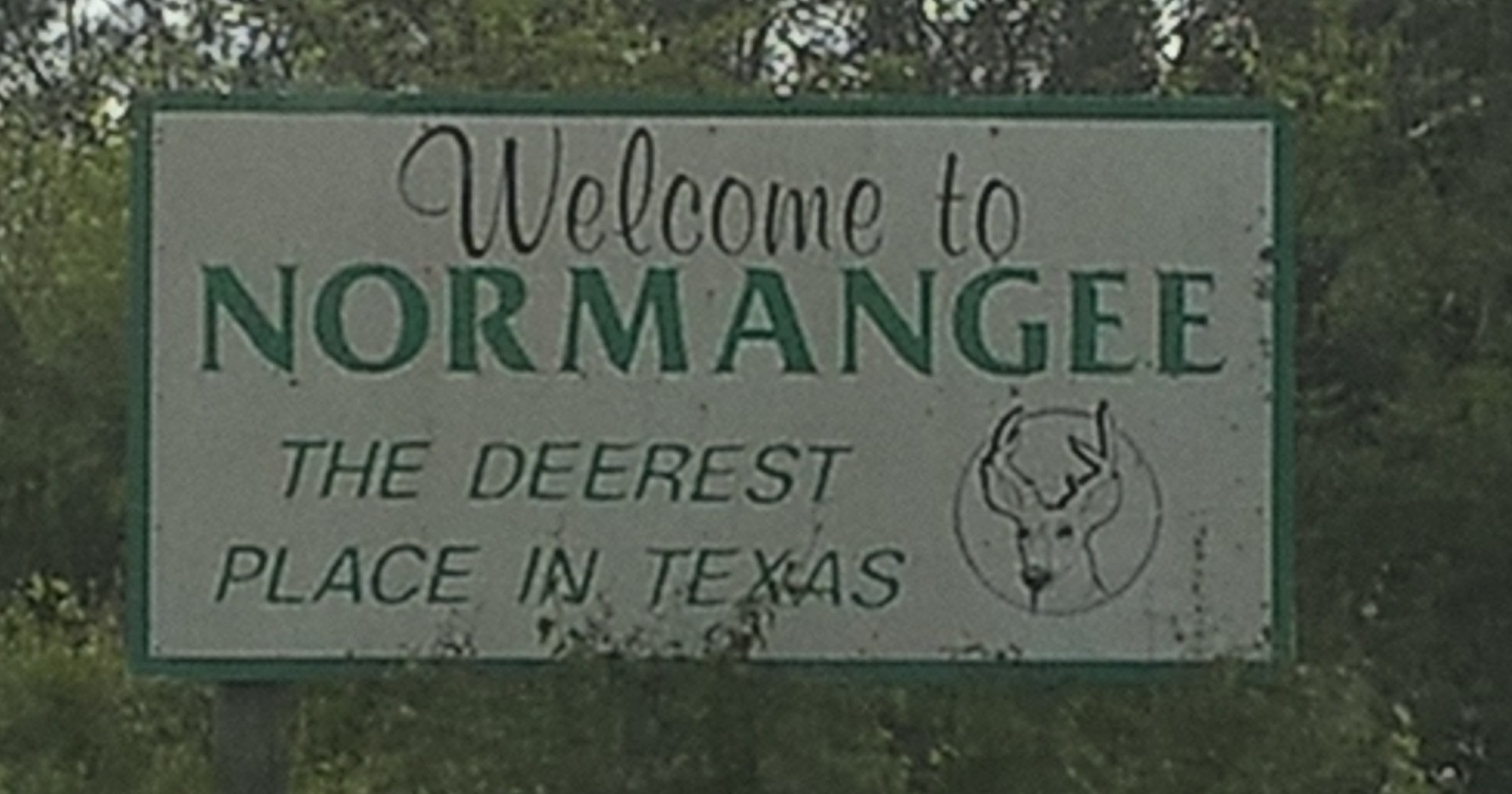 Photo of Welcome Board, Normangee, TX